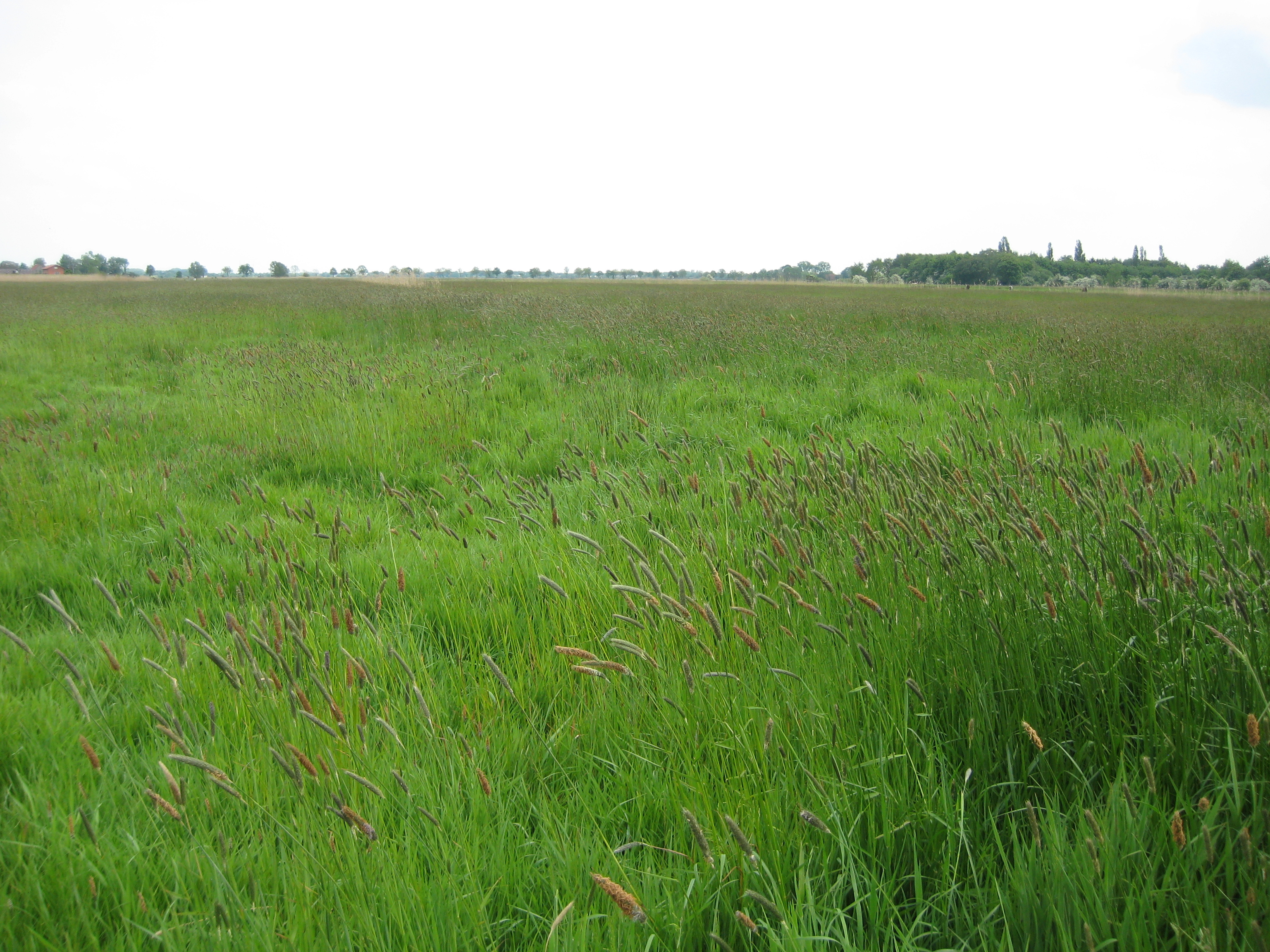 "Binnensalzstelle Rethriehen" Special Area of Conservation (Natura 2000 site) in Bremen (Germany)